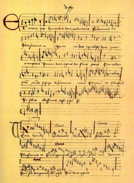 A Gloria from a mass by Dufay; PD-art, since two-dimensional representation of 550-year-old manuscript